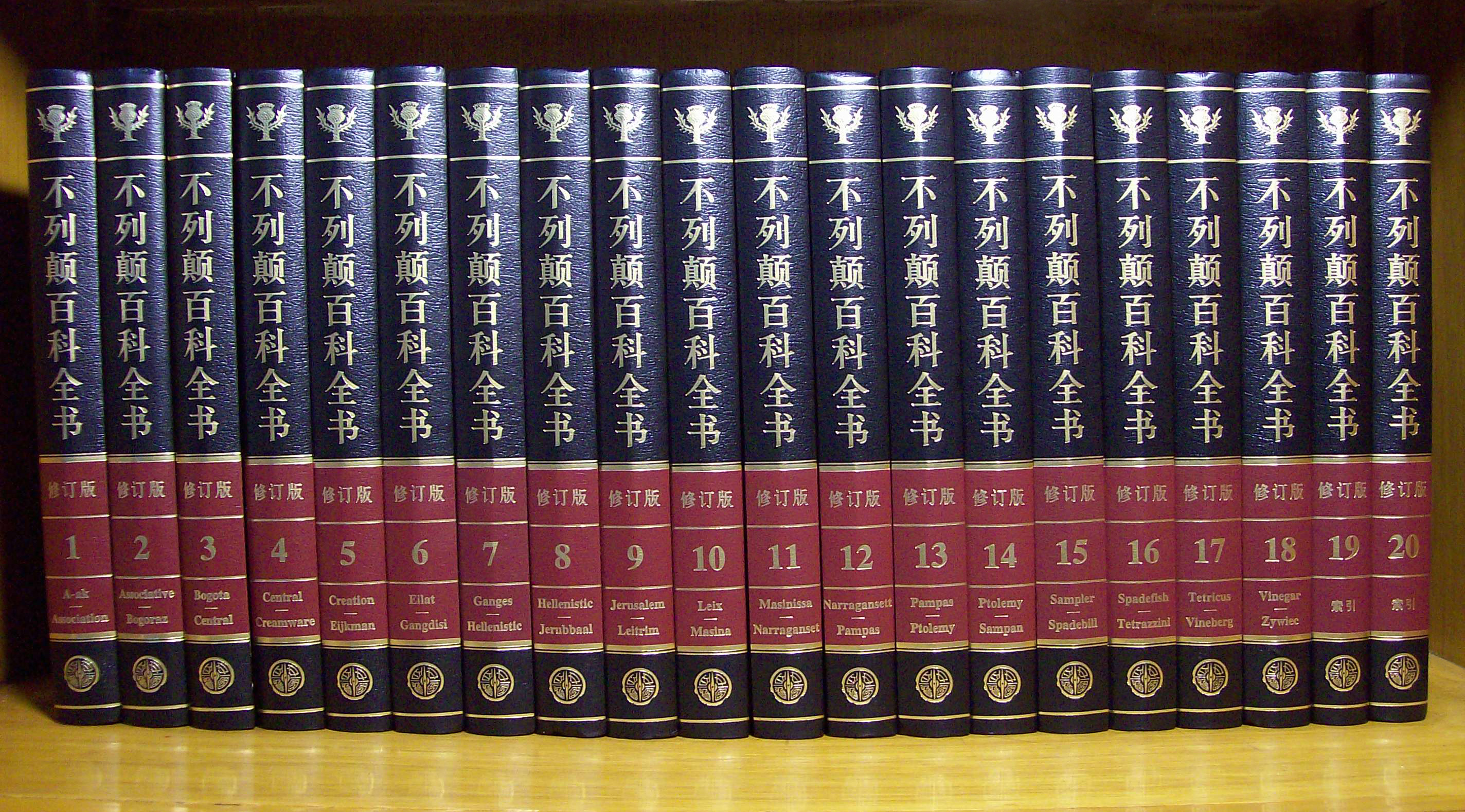 Encyclopædia Britannica International Chinese Edition, of 20 volumes of which the 19th and 20th volume are index, is published by Encyclopedia of China Publishing House. 《不列颠百科全书》国际中文版第2版（修订版），凡20册，其中第19及20册为索引。中国大百科全书出版社，2007年4月第1版，第1次印刷。